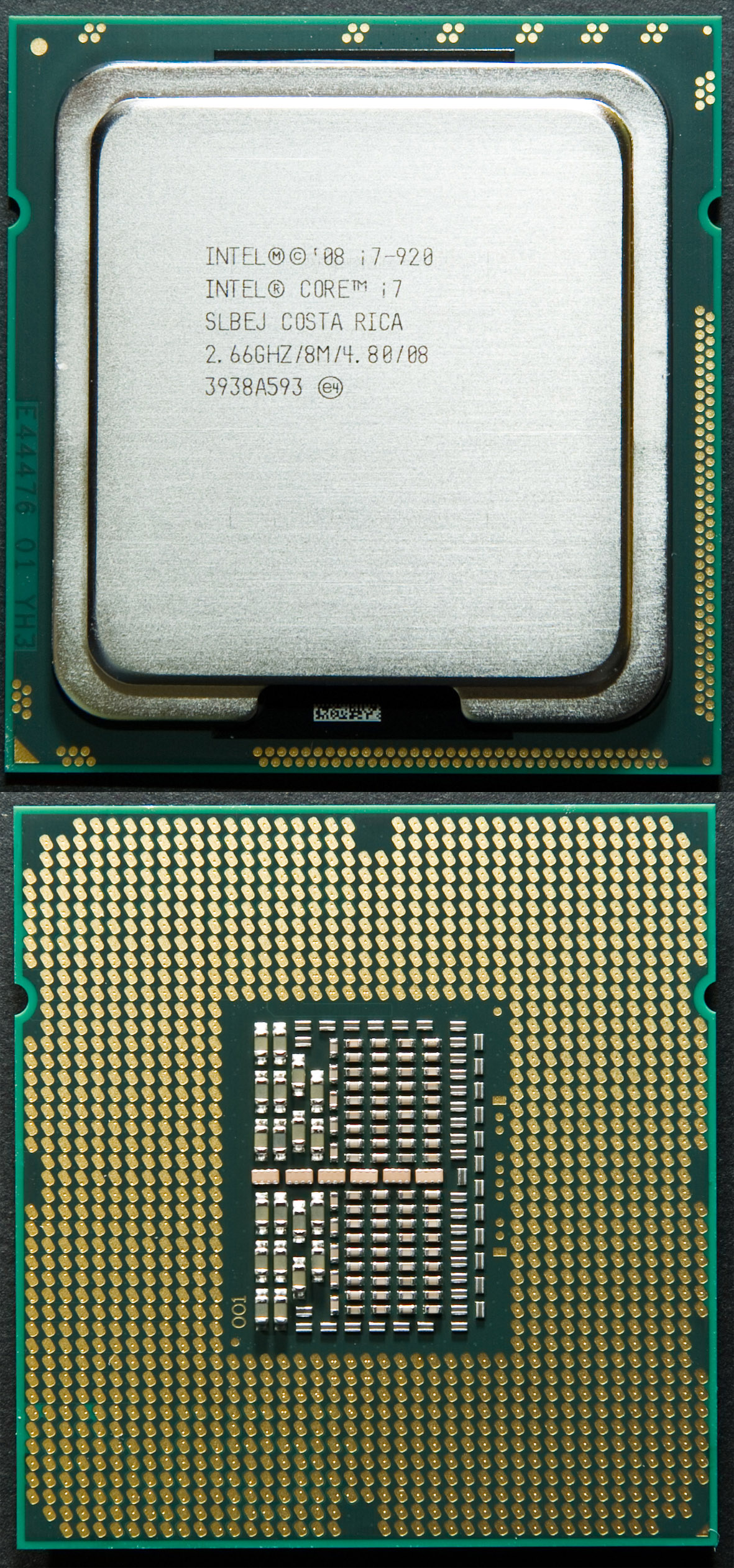 Core i7 920 front and back.